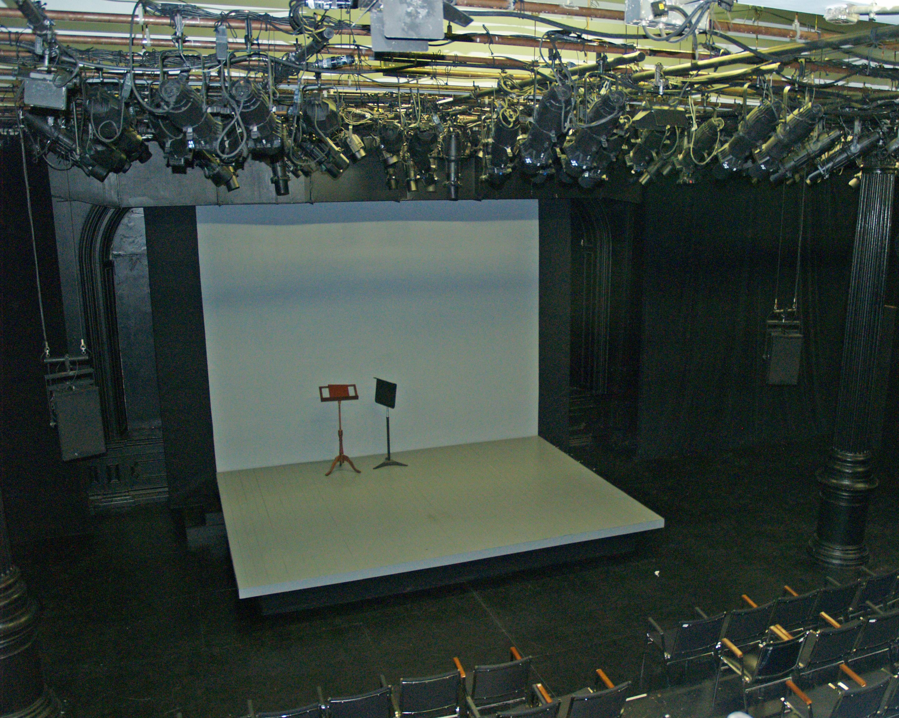 The Public Theater's stage in New York City, February 2008.